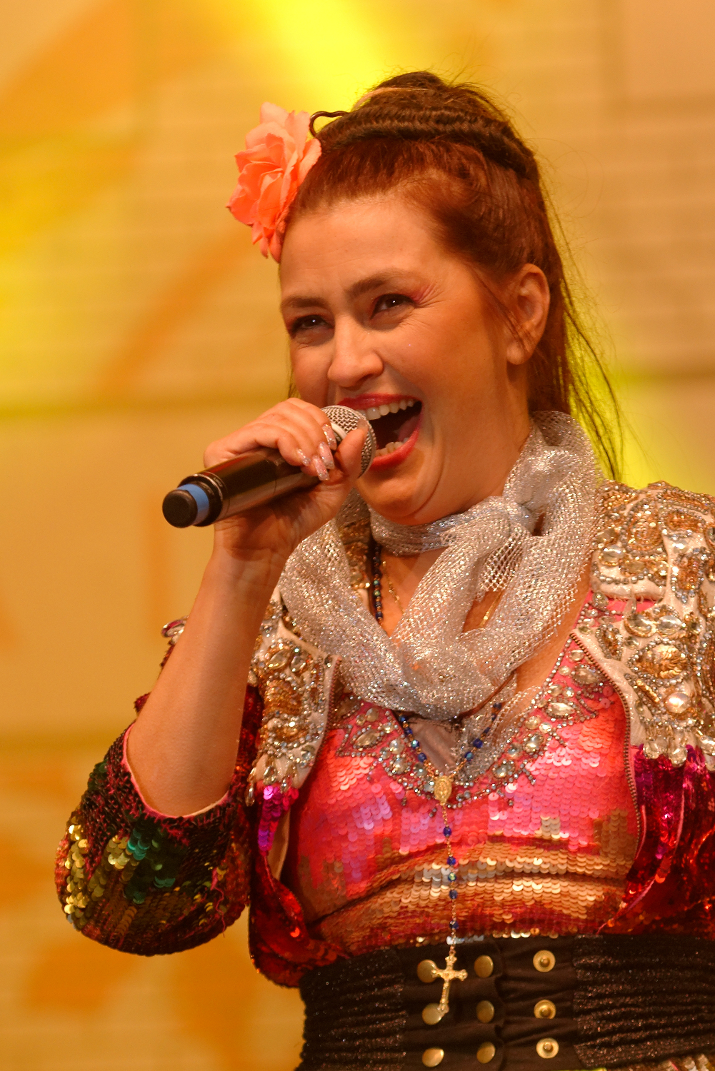 Rona Hartner during the demonstration against same-sex marriage in Paris on 13 January 2013 (“Manif pour tous”).